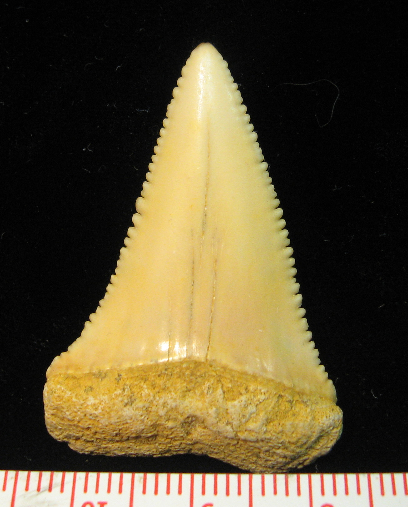 4cm tall Fossil Carcharodon carcharias tooth from Miocene (~20 million year old) sediments in the Atacama Desert of Chile.